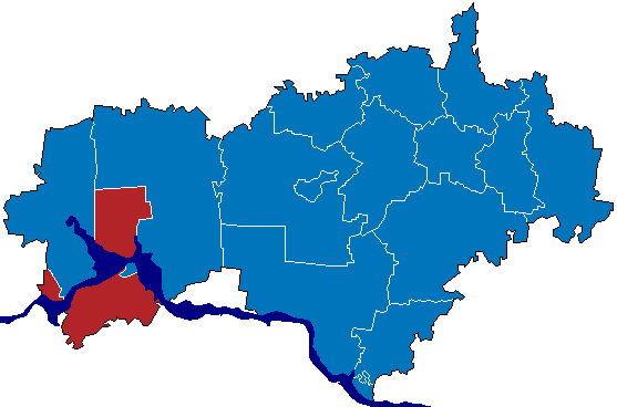 Site of the Gornomarijsky area of Mari El on a republic map